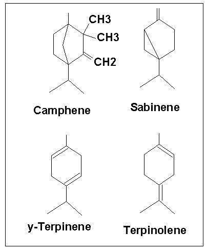 tegetes essential oil components